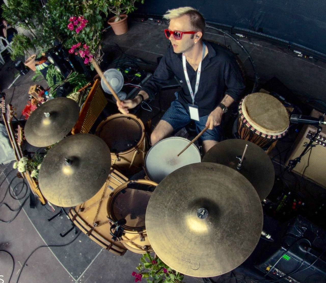 David Keith, playing drums with Blackmore's Night, 2015